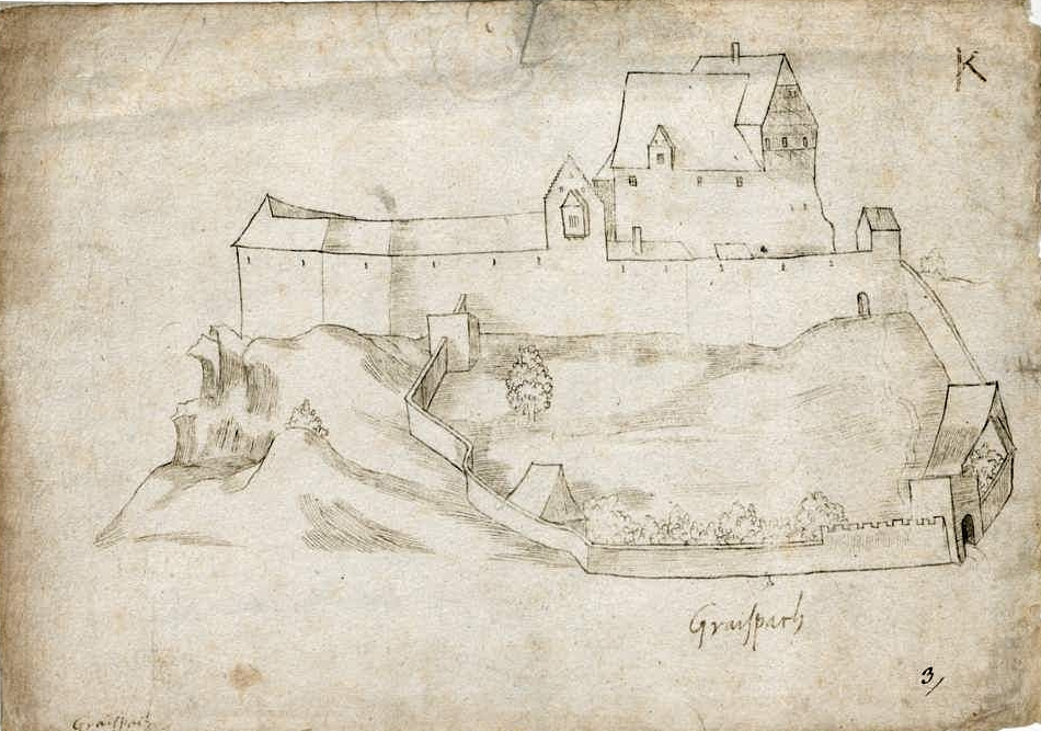 The Graisbach castle in bavaria.